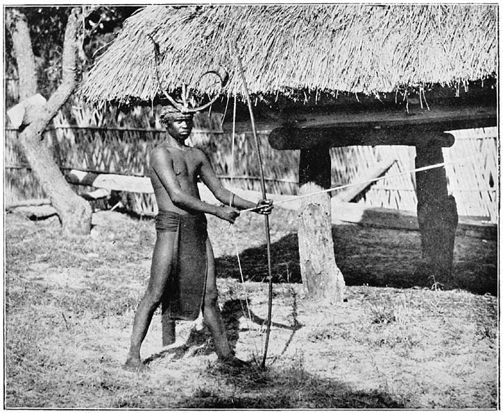 A Negrito from Negros Island (c. 1900, Philippines)